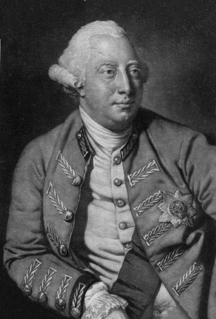 George III of the United Kingdom